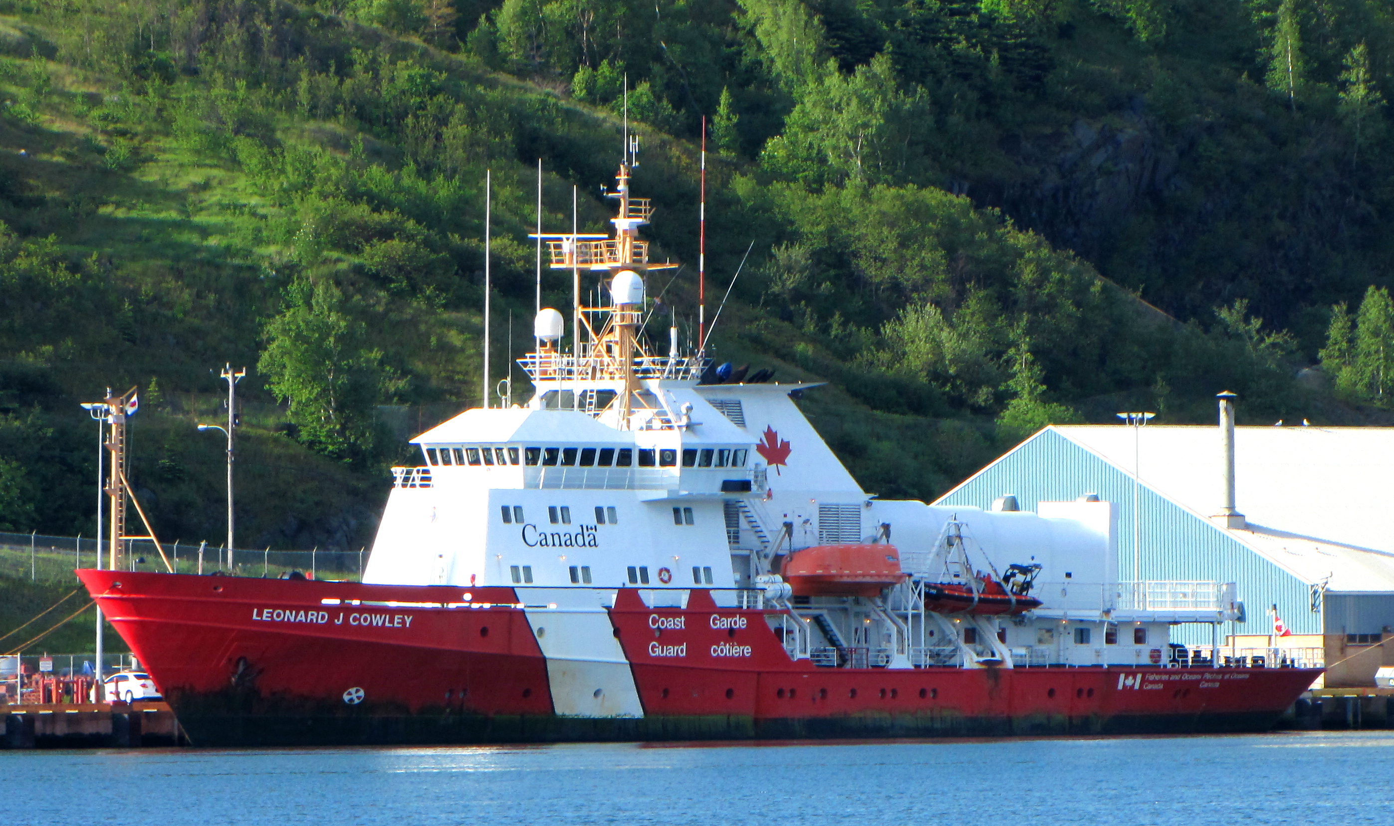 CCGS Leonard J. Cowley, Offshore Patrol Vessel, in St. John's, NL, Canada